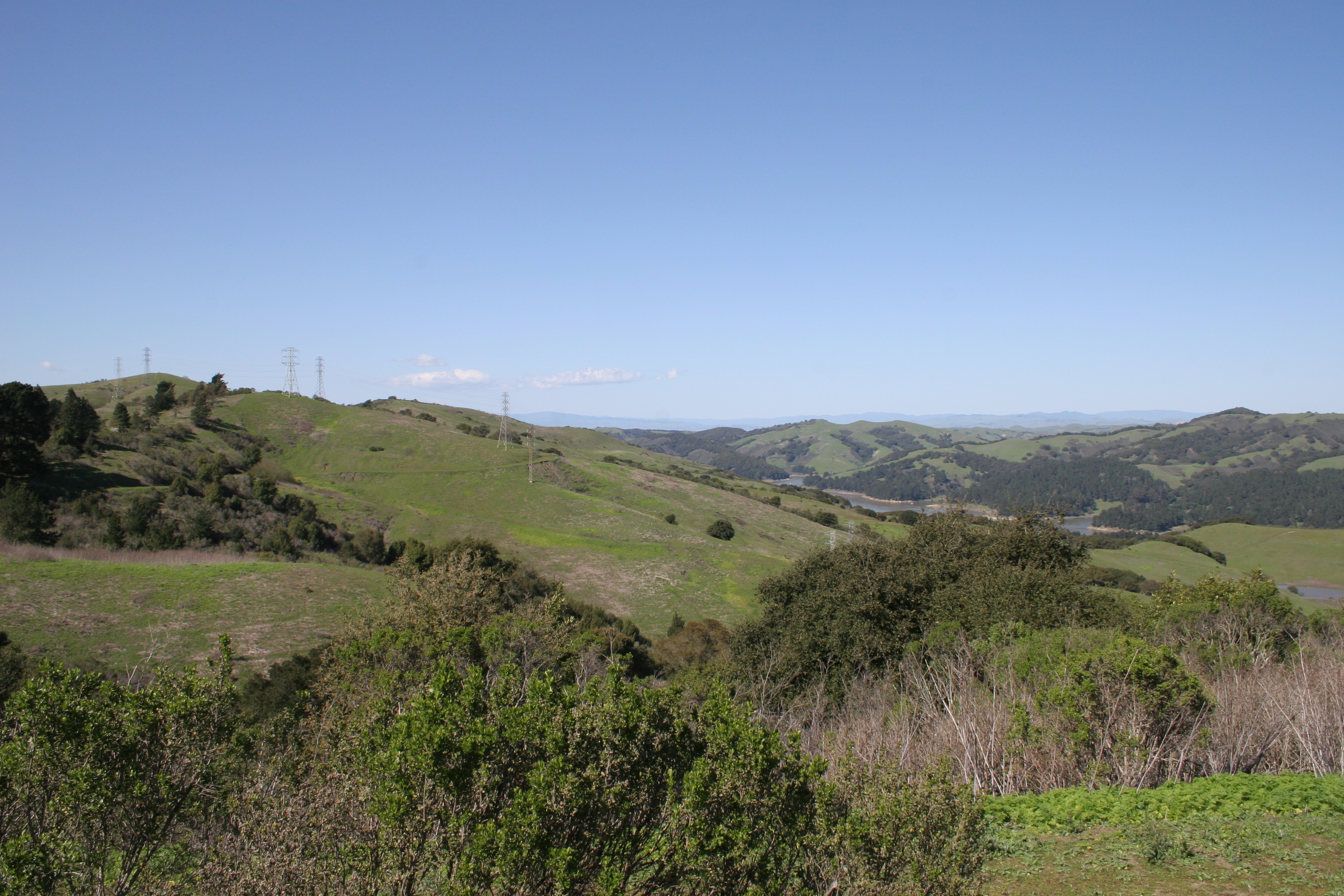 View from "Inspiration Point" in Tilden Park, March 19th 2006.